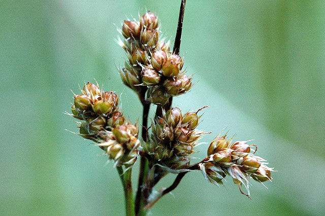 Luzula campestris from Commanster, Belgian High Ardennes .